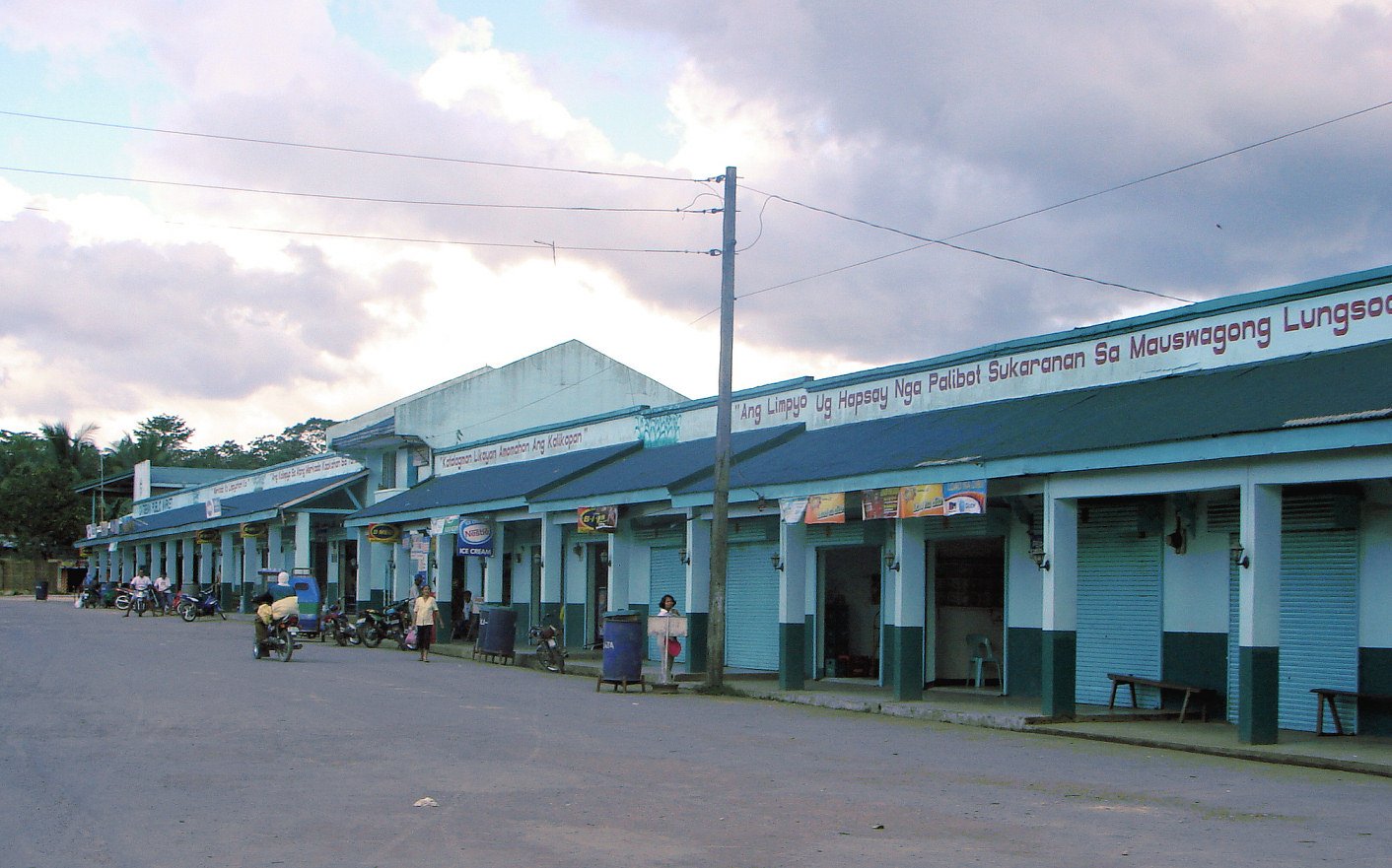 Public market in Catigbian, Bohol, the Philippines